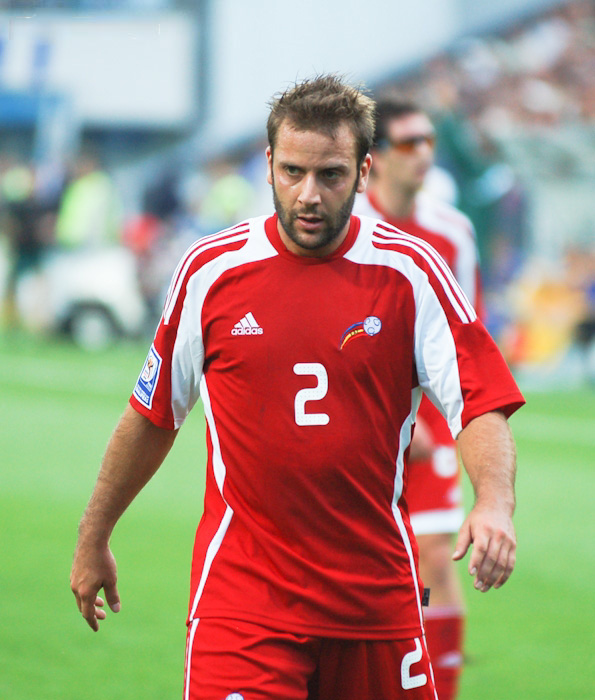 Josep Ayala, Andorran footballer, during the game Ukraine vs Andorra